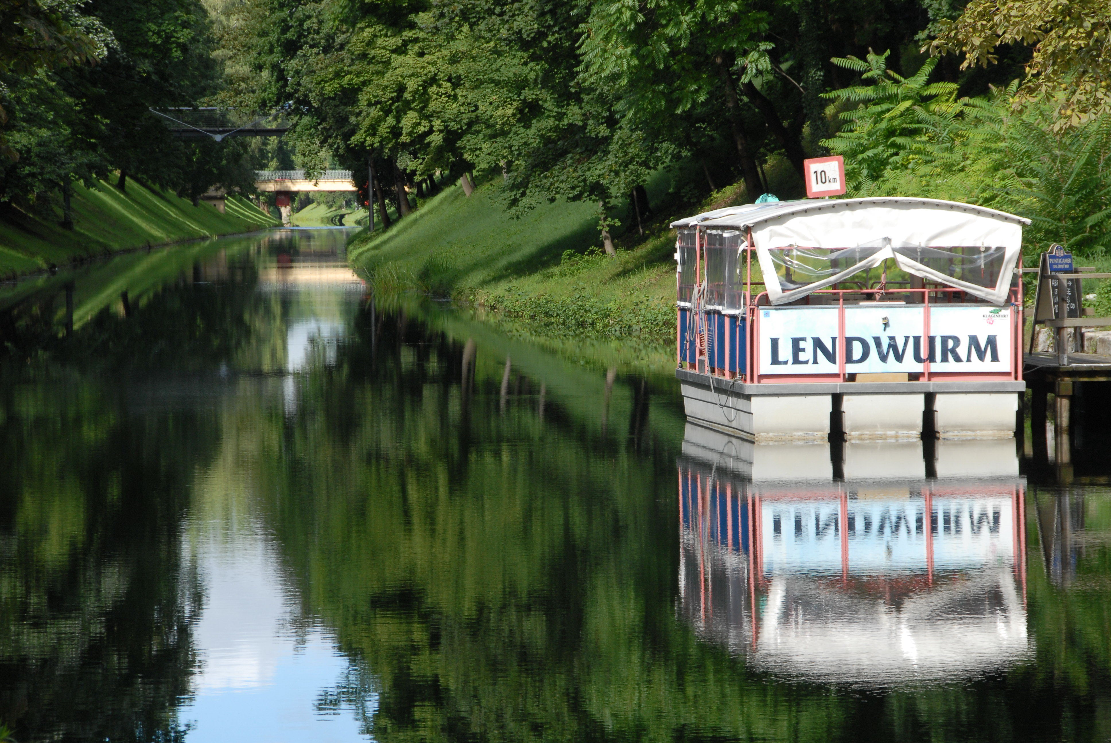 Lendkanal, the artificial outflow from the Lake Woerth in Klagenfurt, Carinthia / Austria / EU